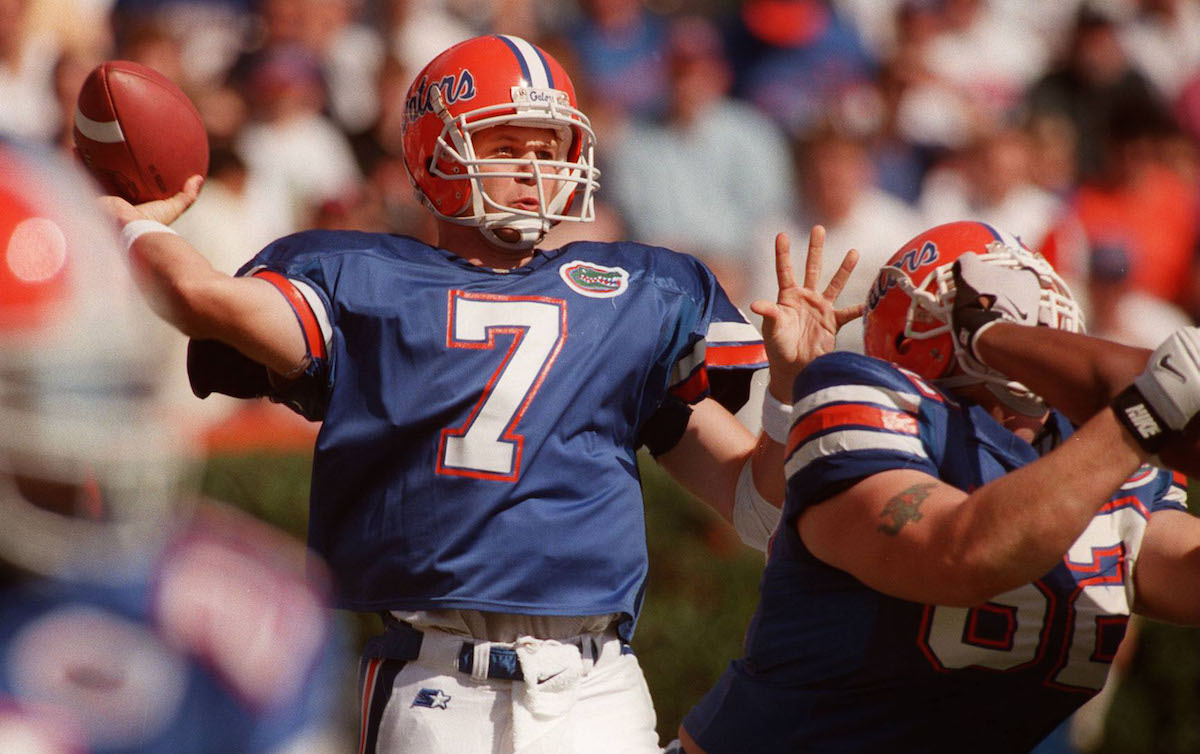 National Champion quarterback and Heisman Trophy Winner Danny Wuerffel at the University of Florida. The team went on to beat FSU at the 1996 Natl Championship.